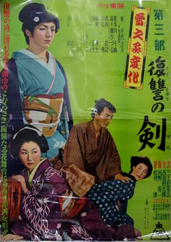 Movie poster for 1954 Japanese movie Yukinojō Henge vol. 3 The Sword of Revenge (雪之丞変化 第三部 復讐の剣 Yukinojō Henge Dai Sanbu Fukushū no Tsurugi).